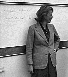 Title: Bonn, Walter und Mildred Scheel geben Autogramme People in the image: Mildred Scheel Factual corrections and alternative descriptions are encouraged separately from the original description. Additionally errors can be reported at this page to inform the Bundesarchiv. Original historic description: Die Frau des Bundespräsidenten Scheel, Frau Dr. Mildred Scheel signiert einen Campingwagen für die Deutsche Krebshilfe